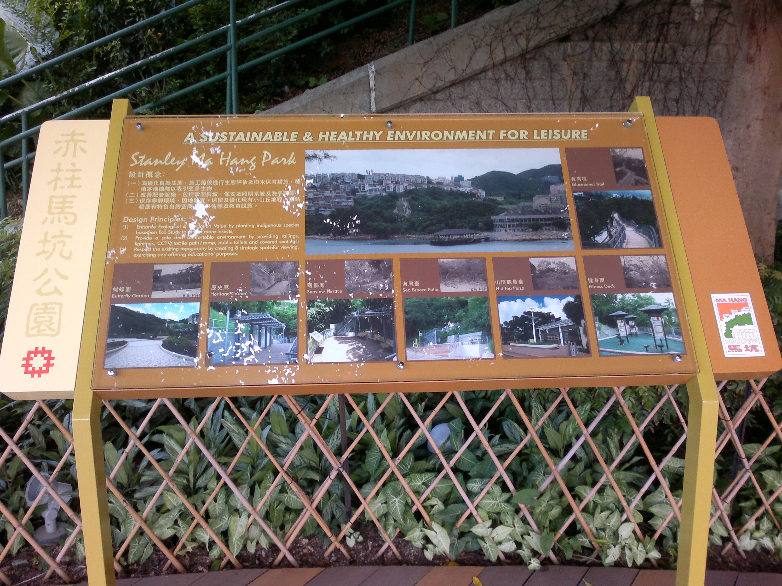 Stanley Ma Hang Park Info Board